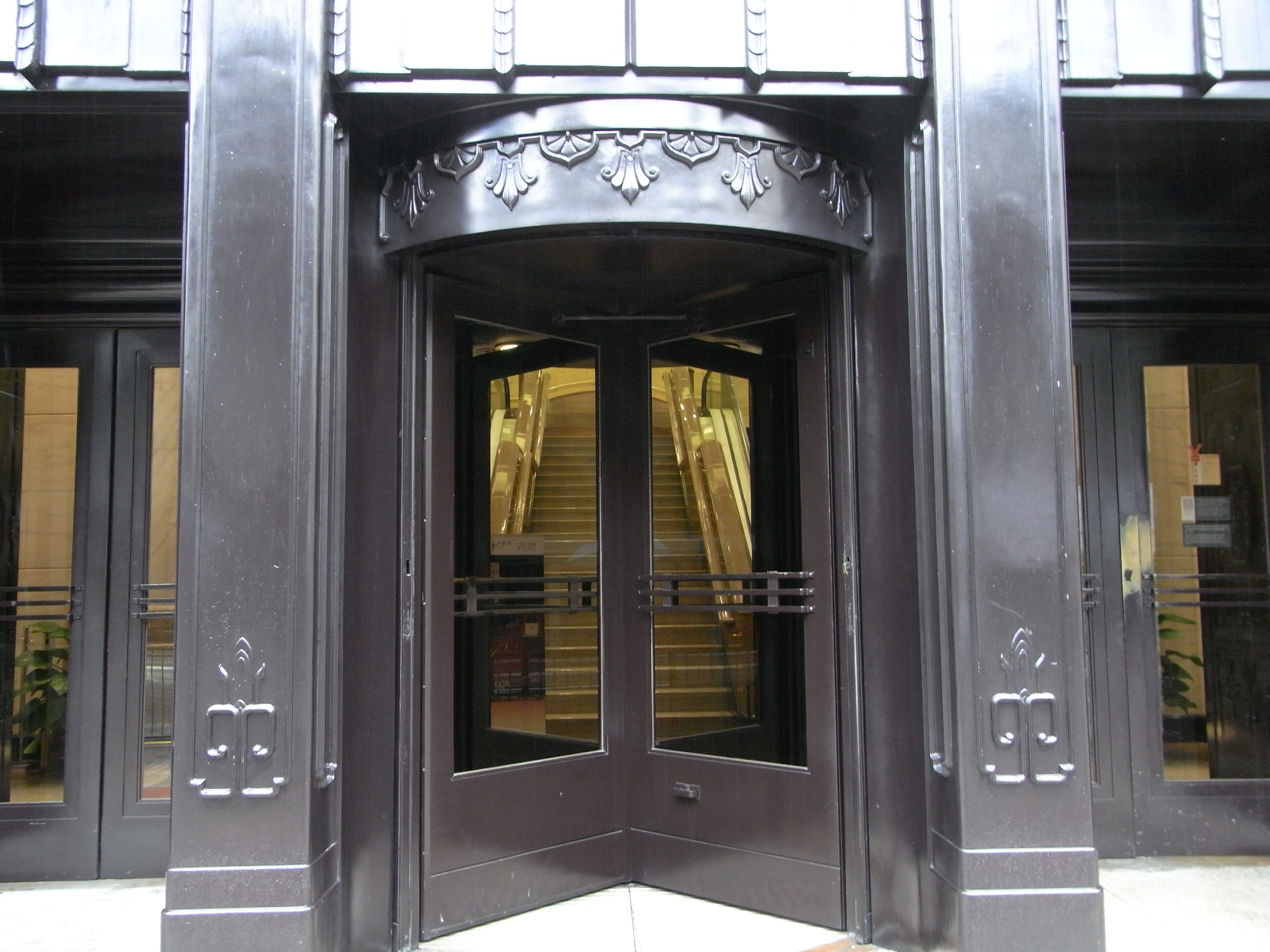 香港島 德輔道中 香港舊中國銀行大廈